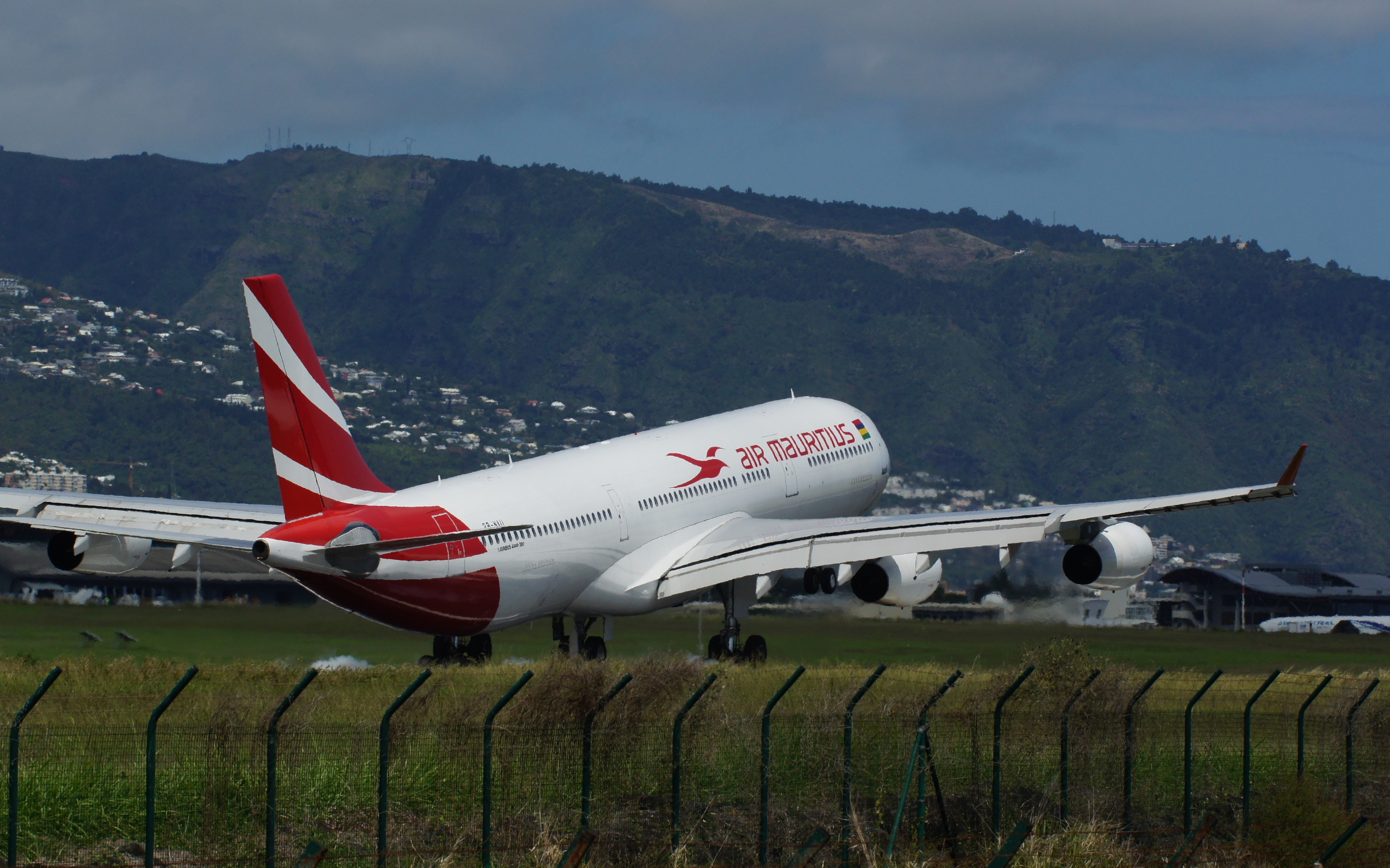 Air Mauritius Airbus A340-300 registered 3B-NAU at Roland Garros Airport, Réunion.